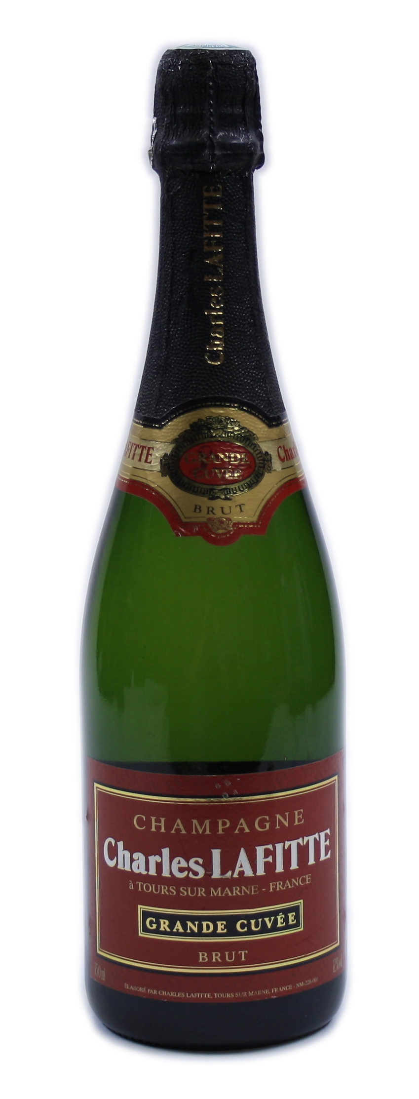 Champagne Charles Lafitte from France